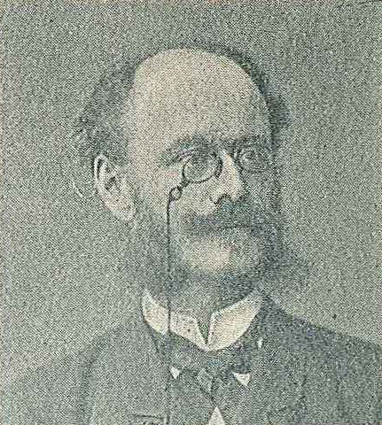 Maximilian Schenström (1843-1930), Swedish jurist (judge) and member of parliament.